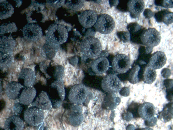 Bertia tropicalis